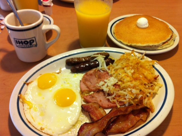 Posted by